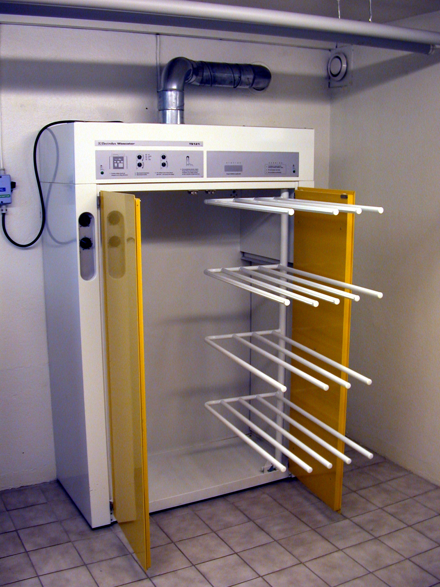 Drying cupboard